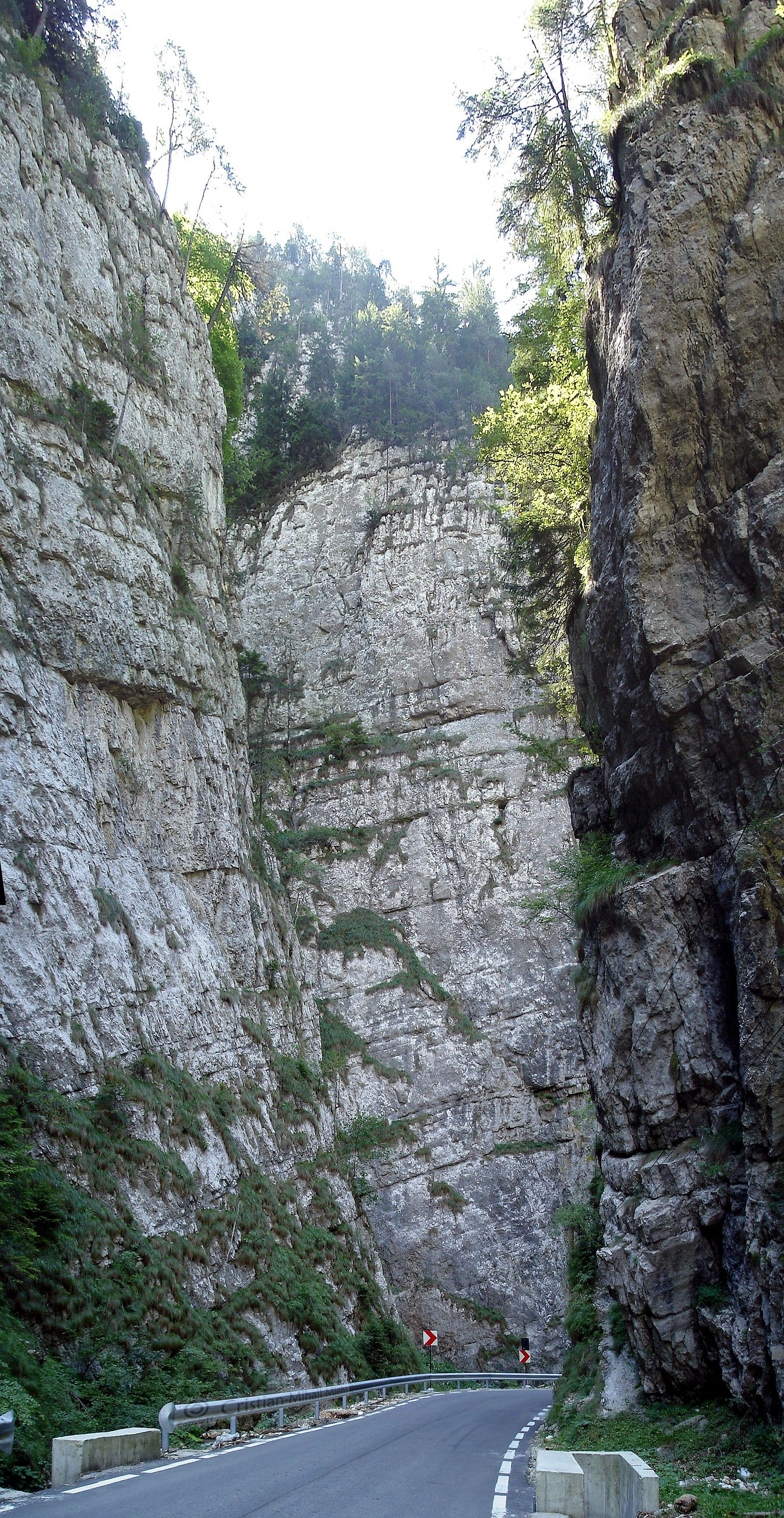 The mountain road sneaking through the Dâmbovicioara’s Gorge